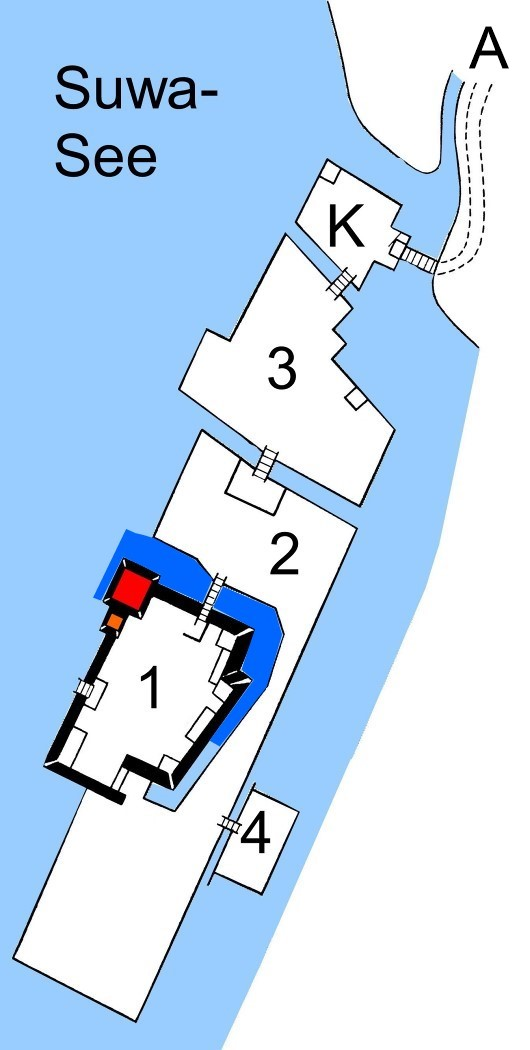 Layout of Takashima castle